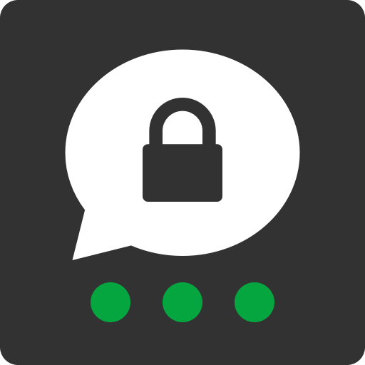 This is the official app-icon of Threema